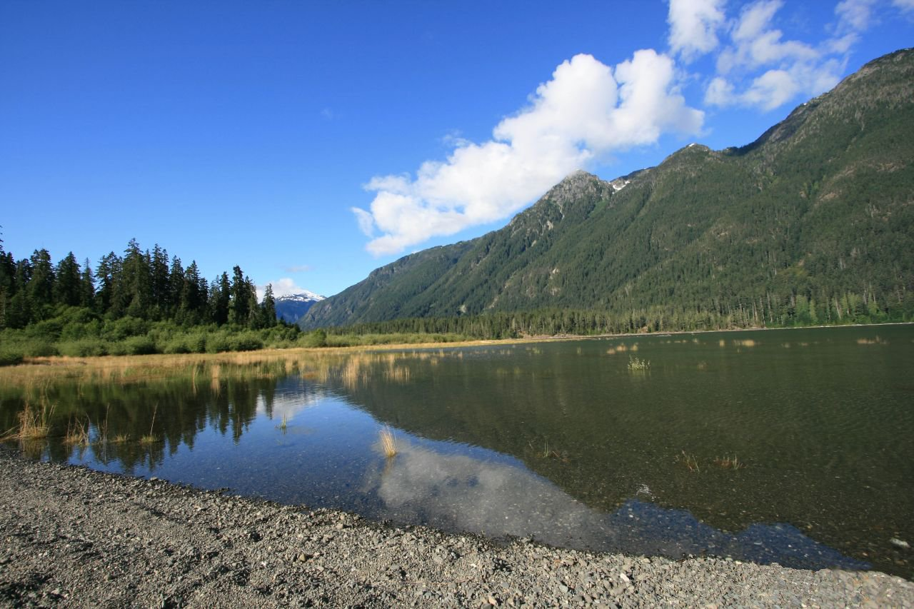 A shot of Buttle Lake from near Ralph River